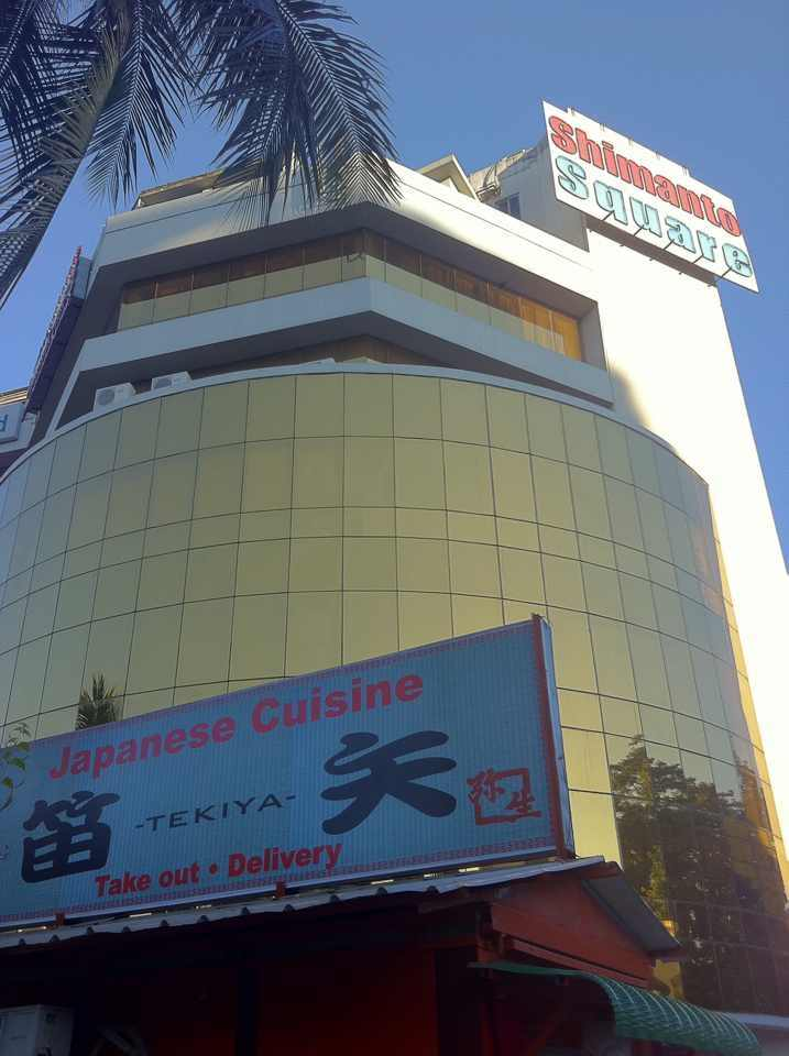 Shimanto Square Front side